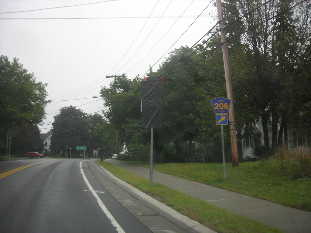 New York State Route 156 at the junction with County Route 208 in Voorheesville, New York